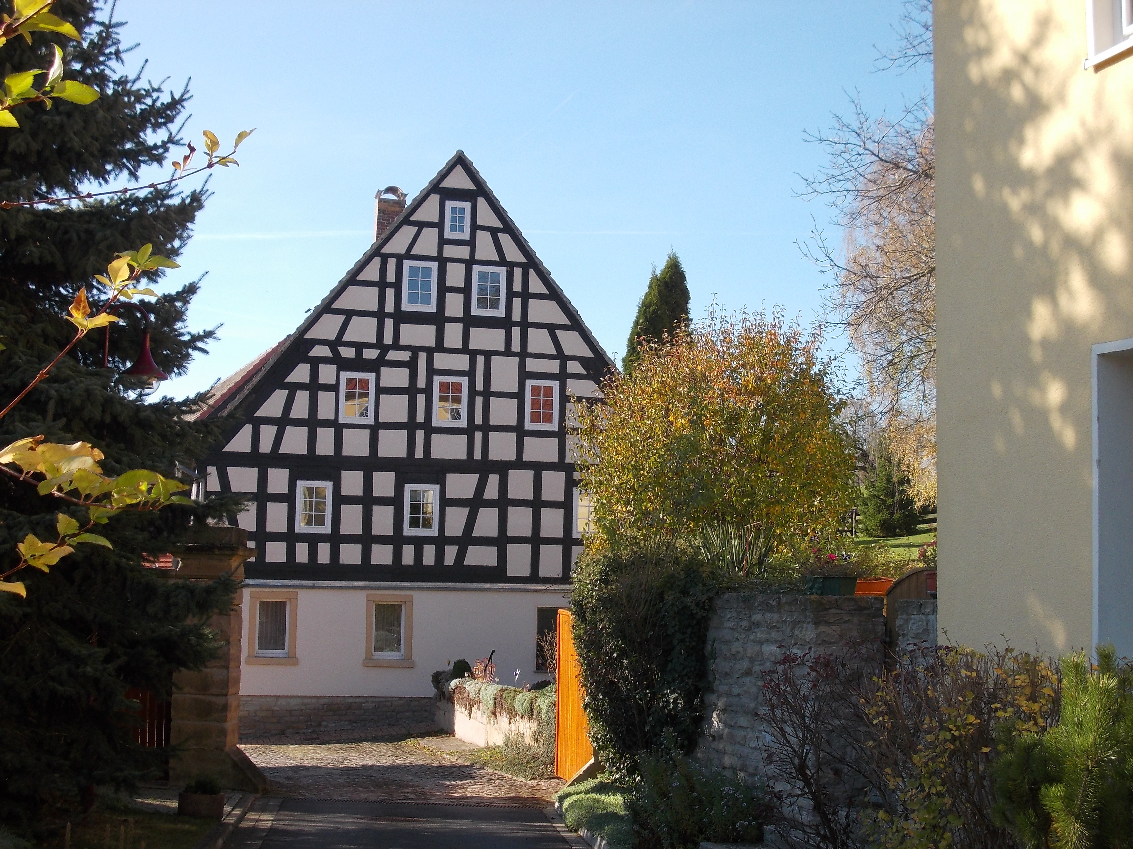 Half-timbered house in Döschwitz (Kretzschau, districts: Burgenlandkreis, Saxony-Anhalt)